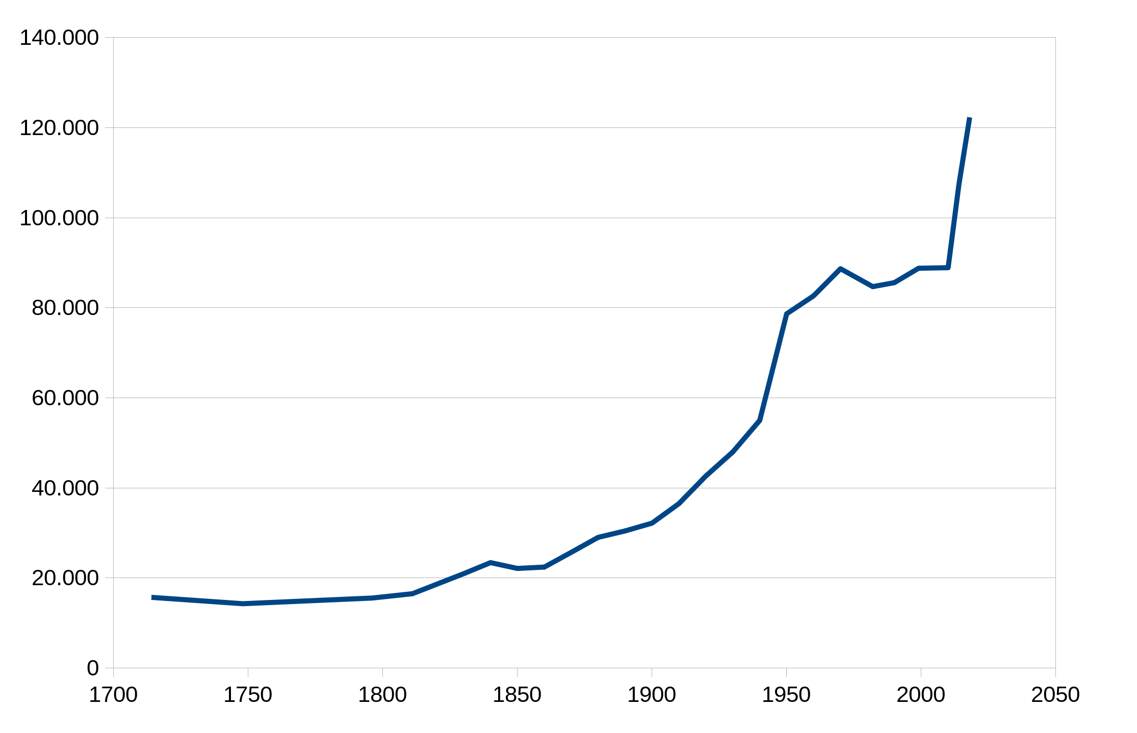 Leeuwarden's municipality population (1714-2018).